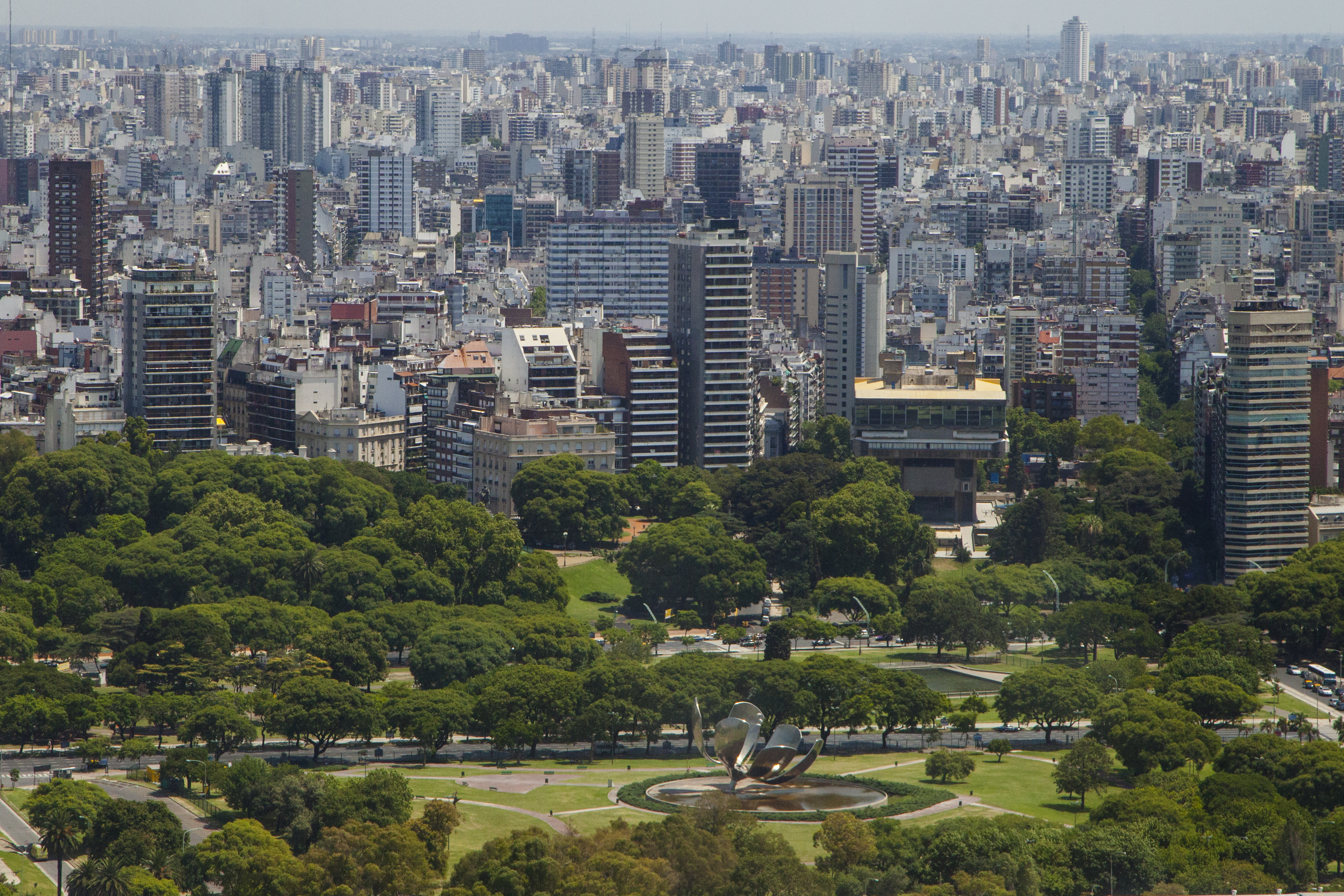 A partial aerial view of the Recoleta section (foreground) of Buenos Aires. Photo: Fernanda LeMarie - Cancillería del Ecuador.